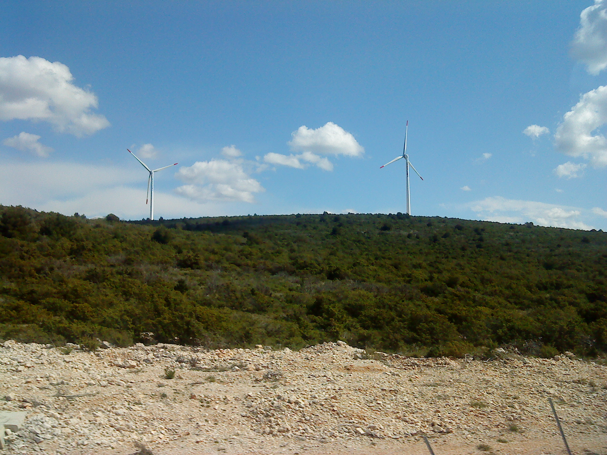 A1 highway in Croatia